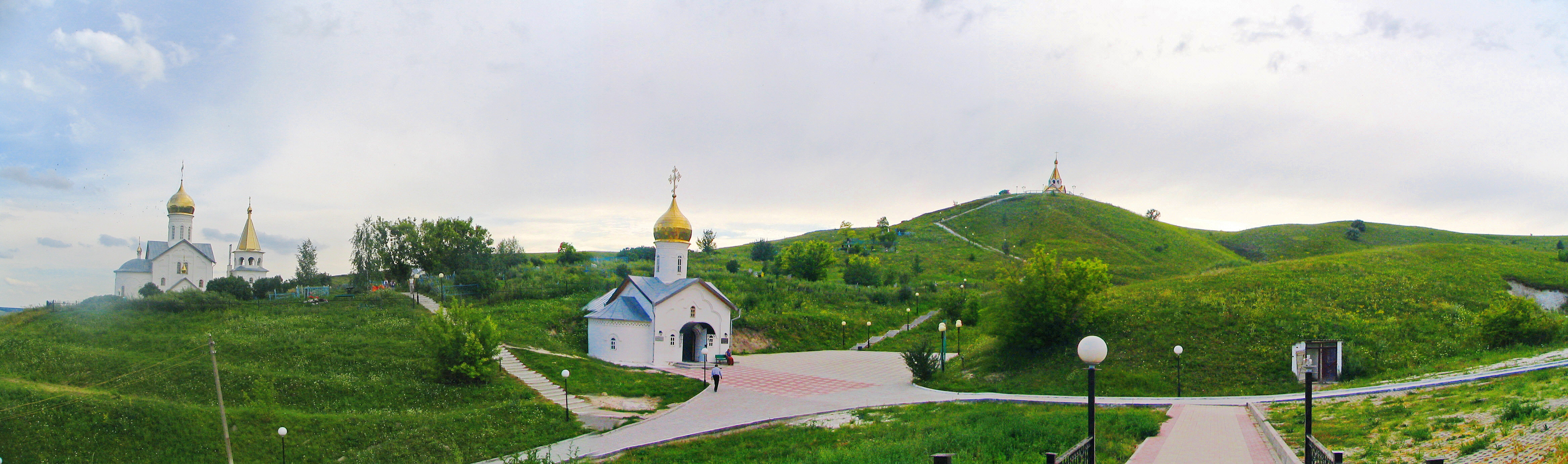 Kholki monastery (Belgorod, Russia) inside territory panoram